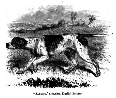 English pointer